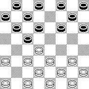 Opening "Staraya partiya" (Старая партия) in russian checkers